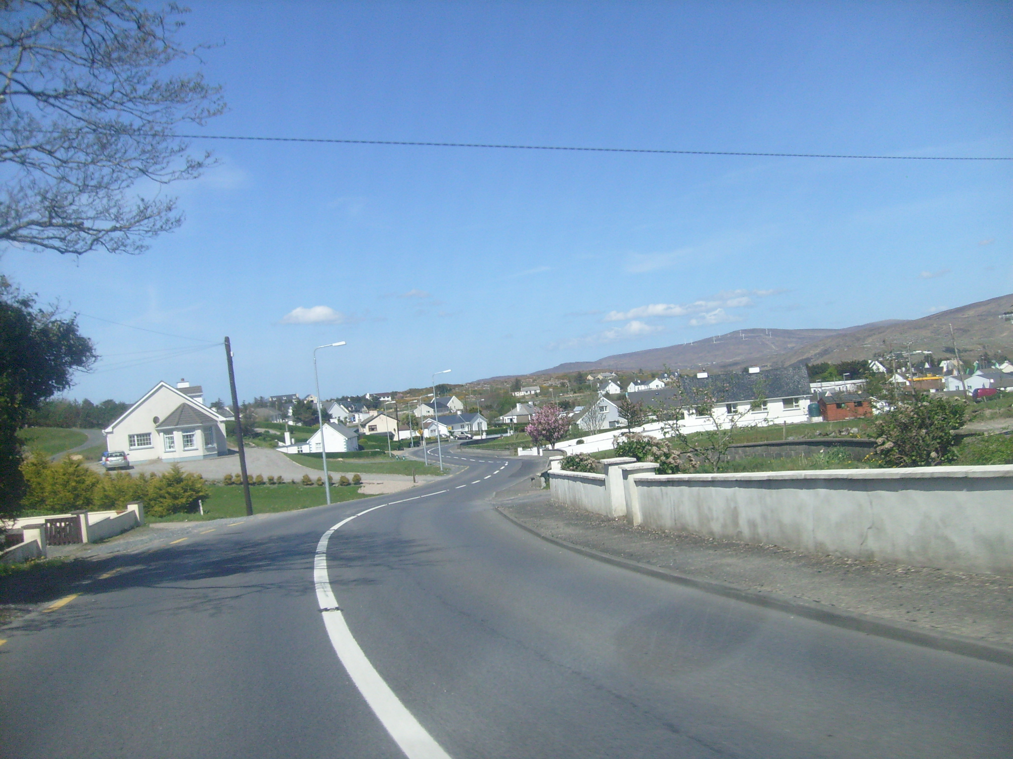 Loch an Iúir (Loughanure), Donegal, ÉIRE